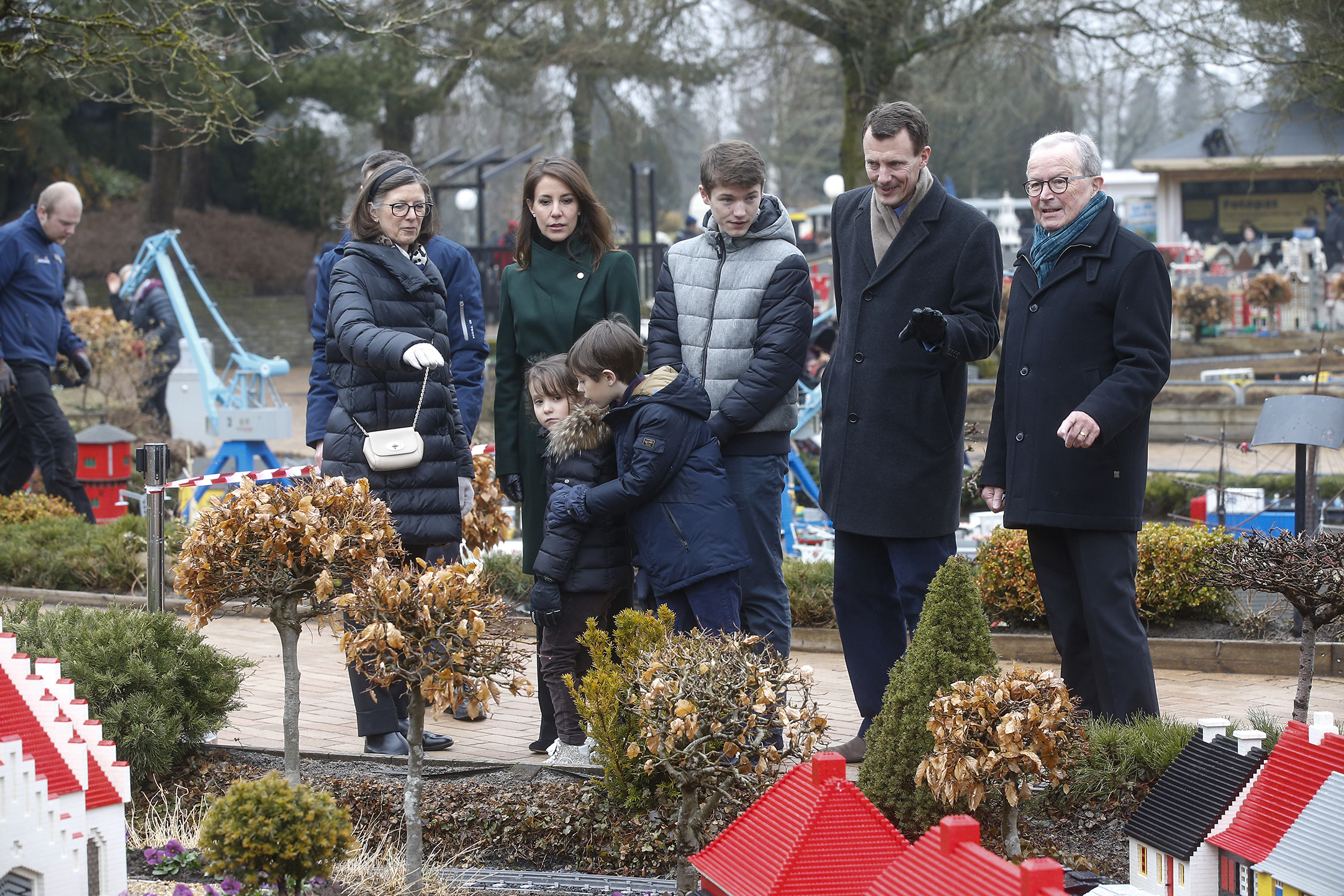 Prince Joachim, Princess Marie, Prince Felix, Prince Henrik and Princess Athena at the opening of the 2018 season of the amusement park Legoland Billund Resort in Denmark. At the right the former president and CEO of Lego, Kjeld Kirk Kristiansen. The amusement park celebrates 50 years in 2018.